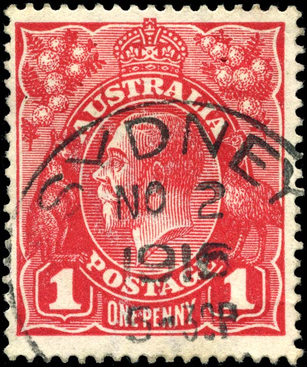 Australia one-penny red stamp of 1914